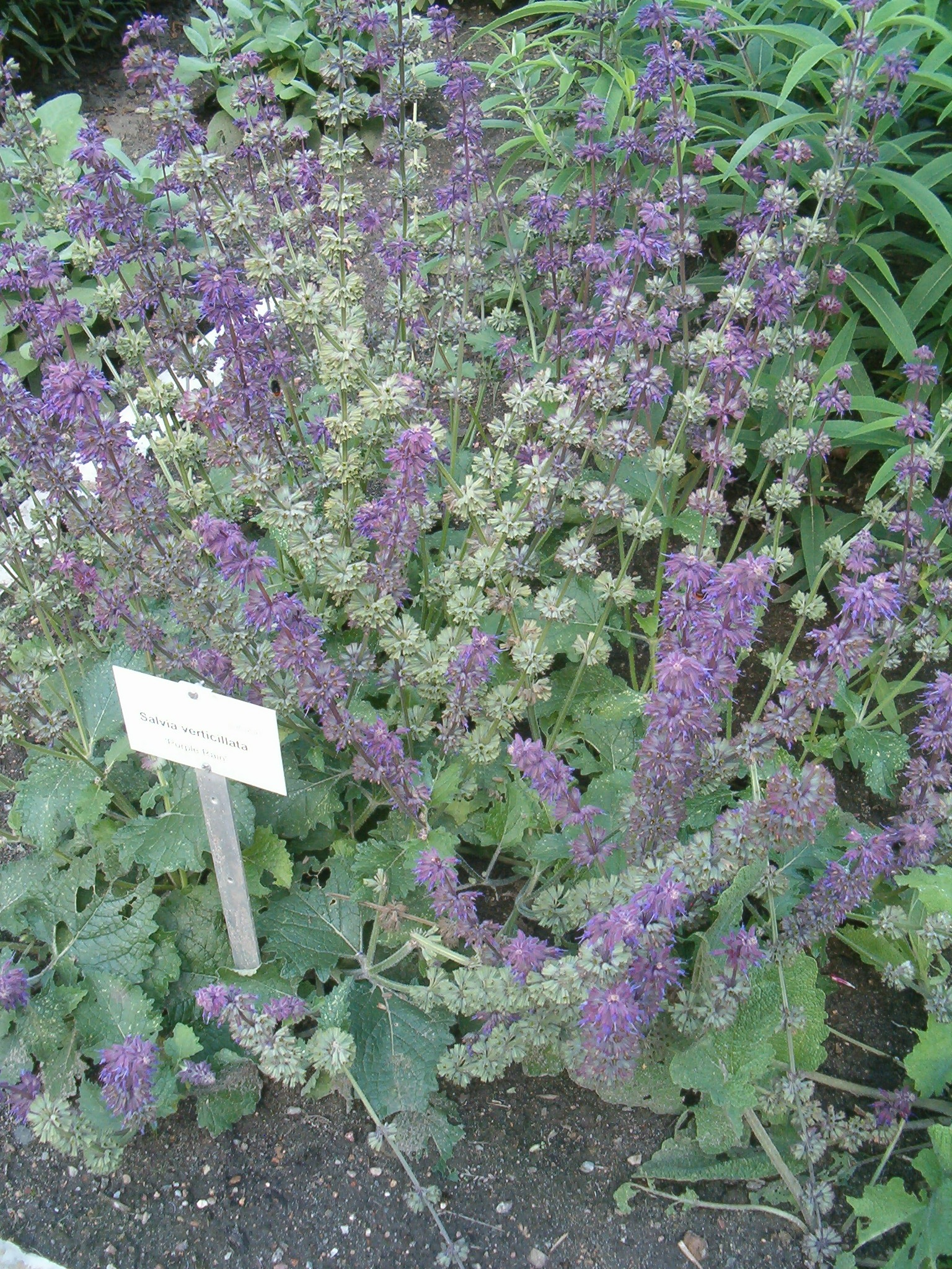 At Botanical Gardens Berlin-Dahlem Species Salvia verticillata Cultivar 'Purple Rain'